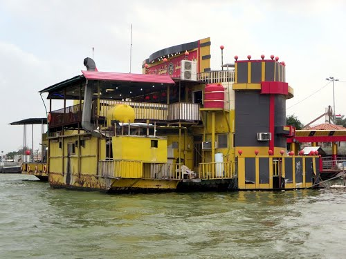 مطعم في شط العرب